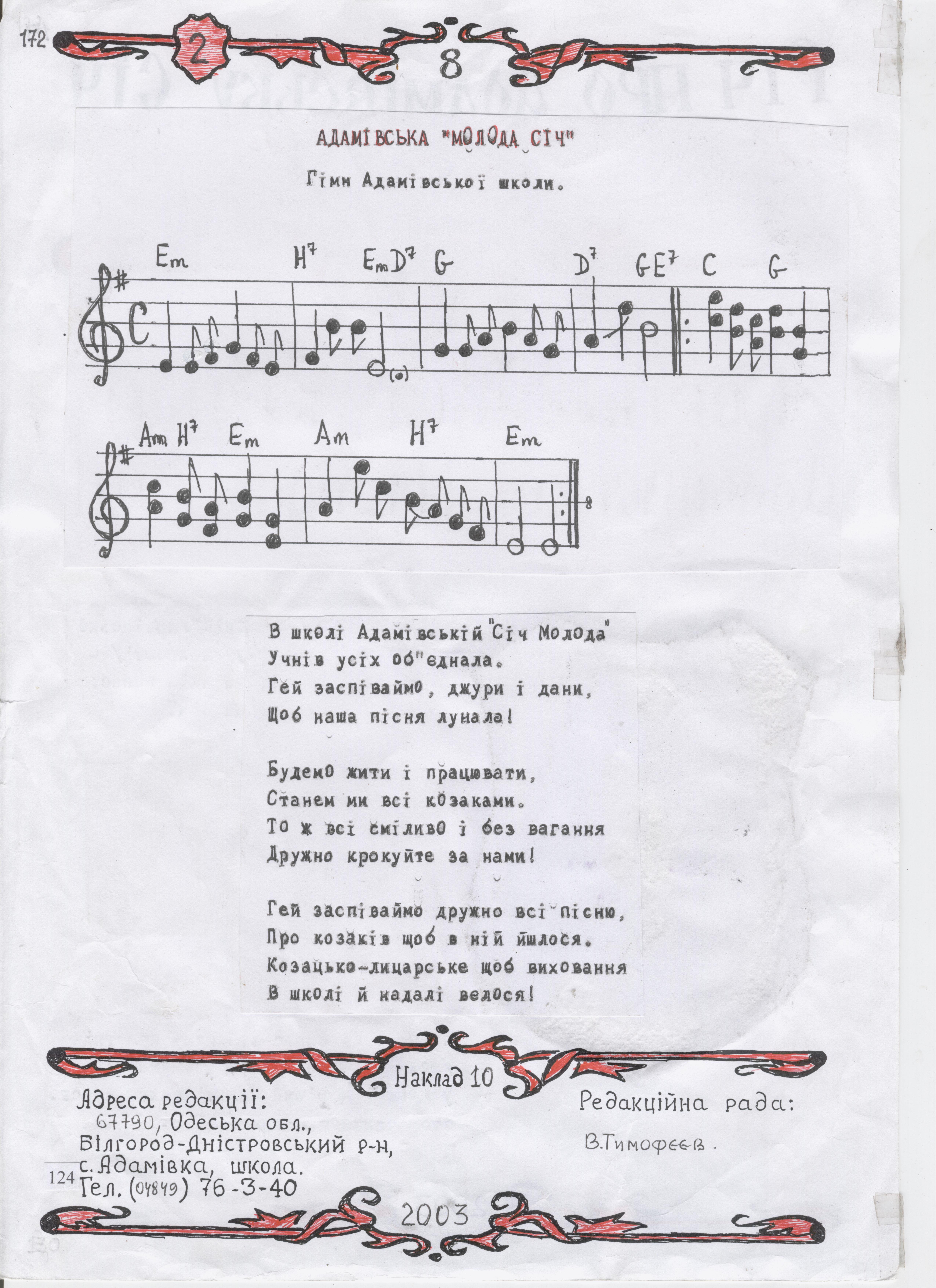 Гімн Адамівської Молодої Січі.